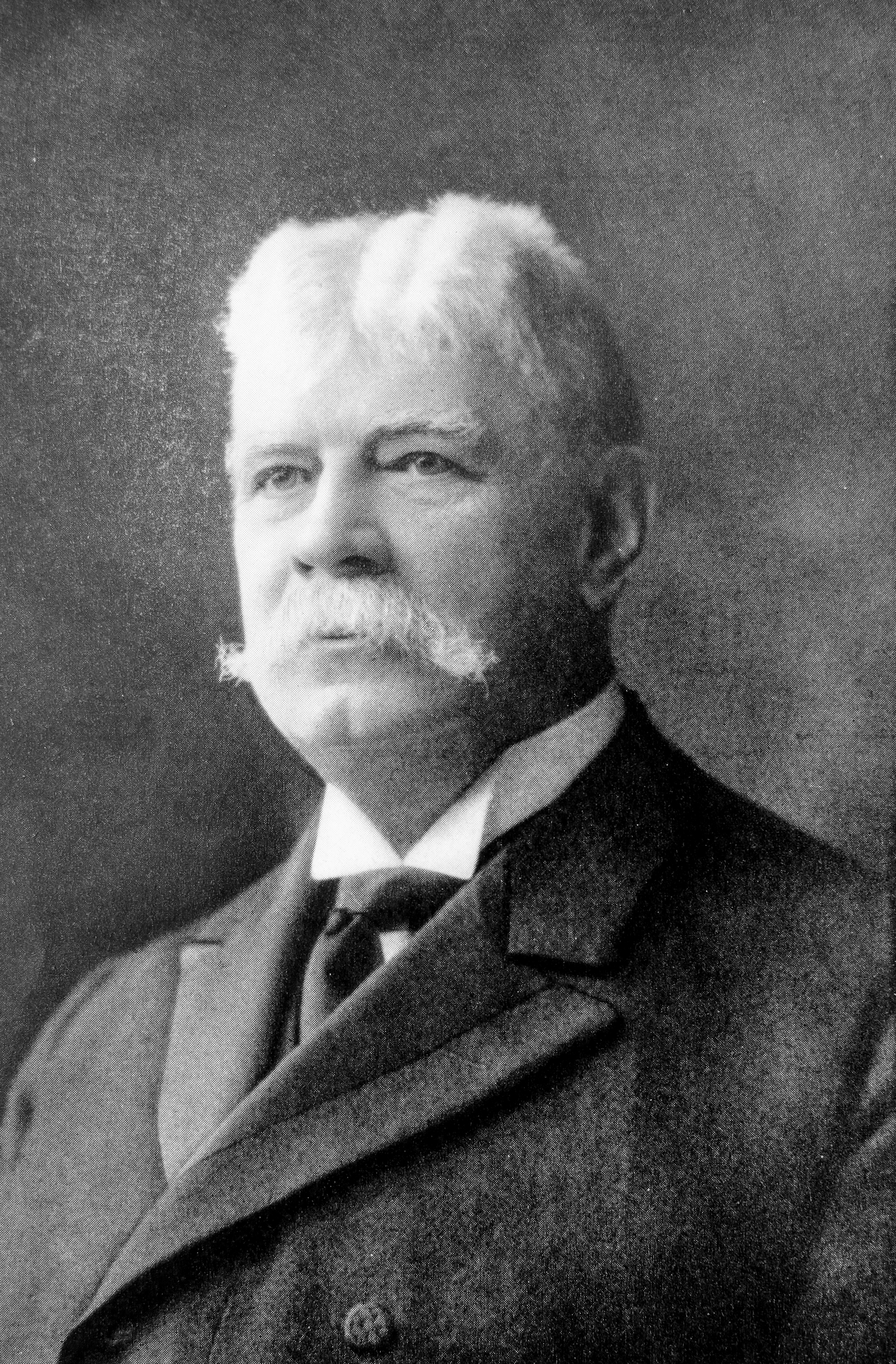 Elisha Dyer Jr RI Governor, 1908 engraving from Source: Representative Men and Old Families of Rhode Island.